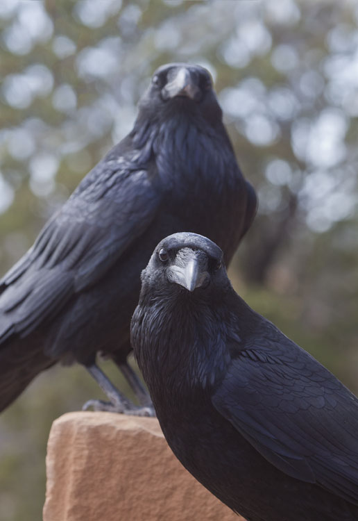 A pair of Common Ravens at Bryce Canyon National Park, Utah, USA.